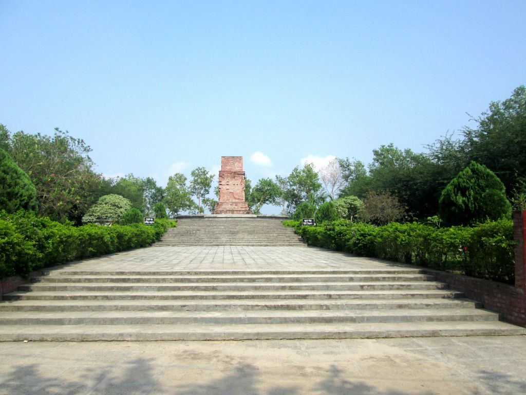 ১৯৭১ সালে পাকিস্তানী হানাদার বাহিনী নিরীহ বাঙ্গালিদের হত্যা করে এখানে ফেলে রাখত। বলা হয় যে, এটা বাংলাদেশের সবচেয়ে বড় বধ্যভূমি, এখানে বেশী মৃত দেহ ফেলে রাখা হয় ।